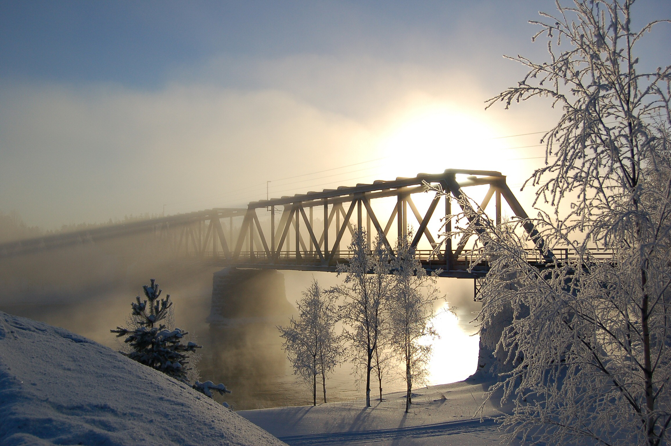 Mist rising from Oulujoki river embraces the Vaalankurkku railway bridge near Vaala station in Finland.